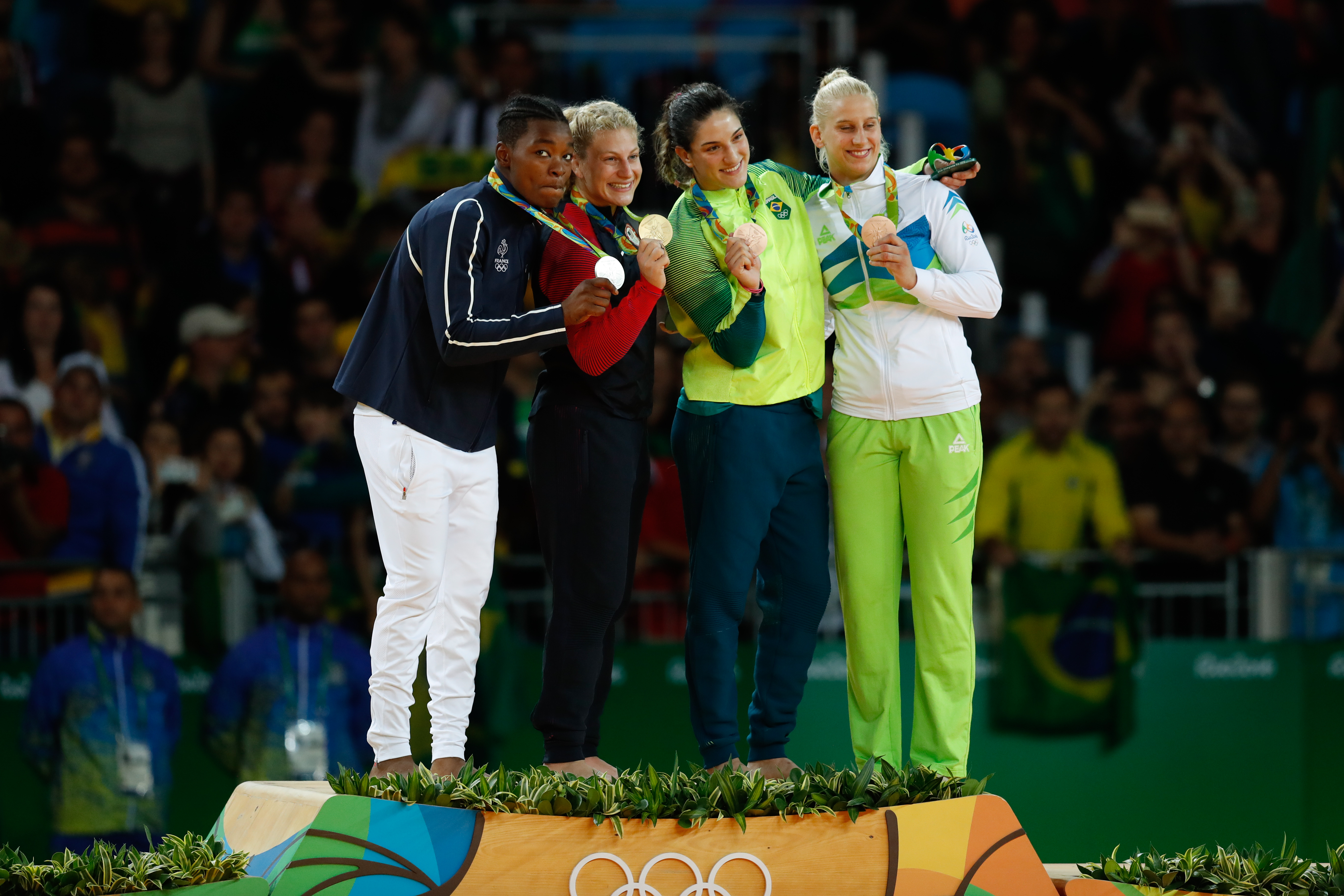 Rio de Janeiro - A judoca brasileira Mayra Aguiar vence cubana na categoria até 78 quilos e ganha medalha de bronze na Rio 2016 (Fernando Frazão/Agência Brasil)